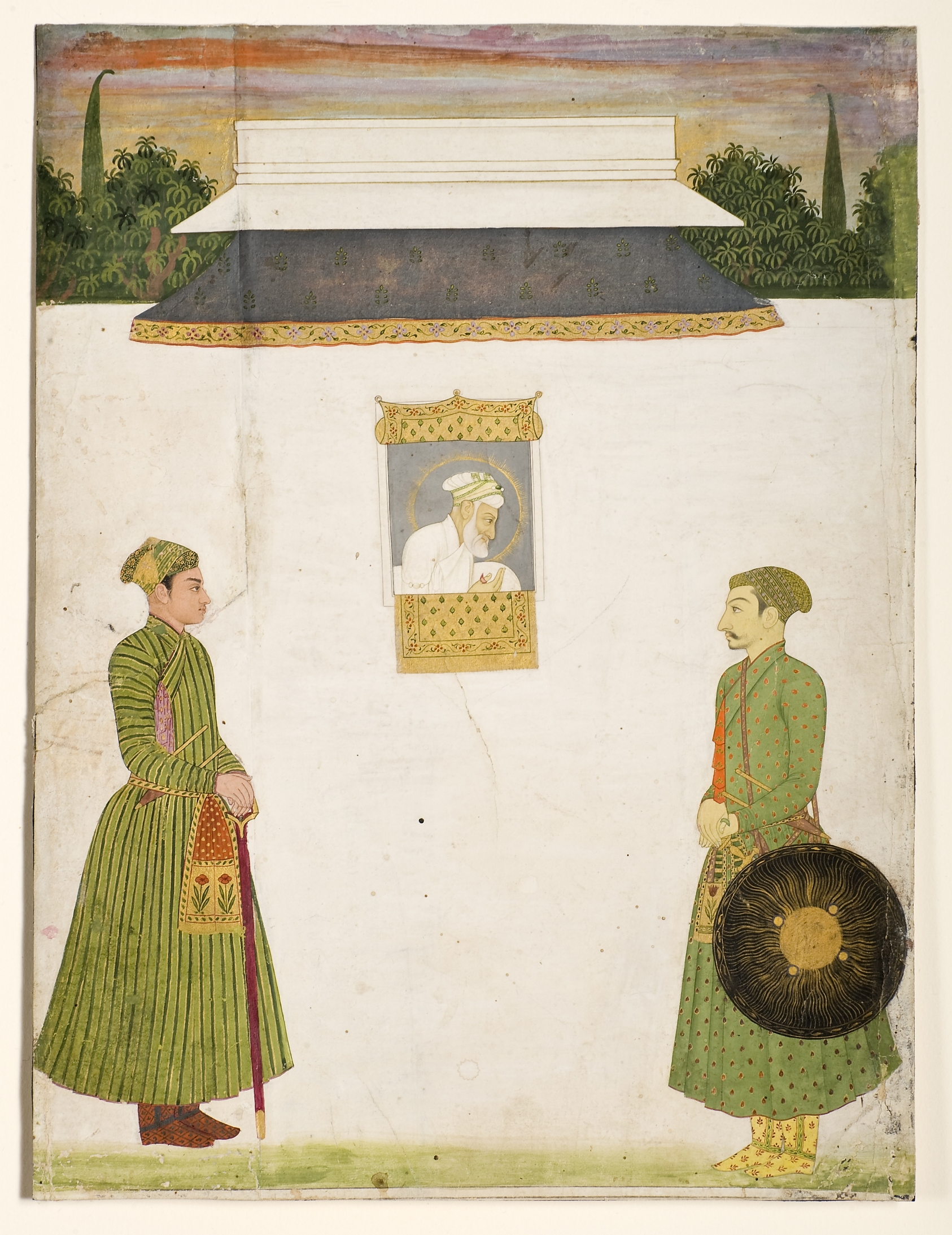 Emperor Aurangzeb at a jharokha window, two noblemen in the foregroundIn 1710 San Diego Museum of Art